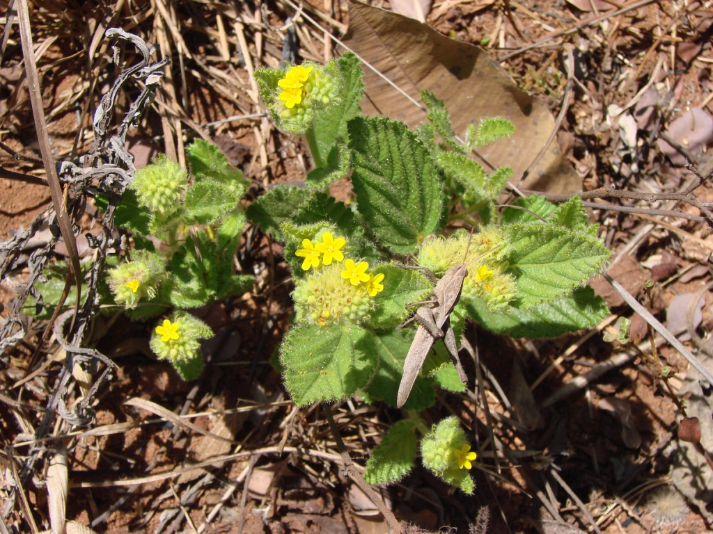 Waltheria communis A.St.-Hil. (Sin. het. Waltheria douradinha A. St.-Hil.) - MALVACEAE - Parque Olhos D'Água - Brasília - Distrito Federal - Brasil.